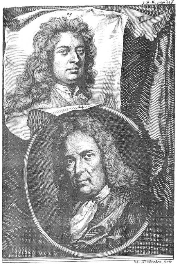 Plate K p234 23 Godfried Kneller, 24 Gerard Hoet. Illustration from Part 3 of Arnold Houbraken's Schouburg from 1721